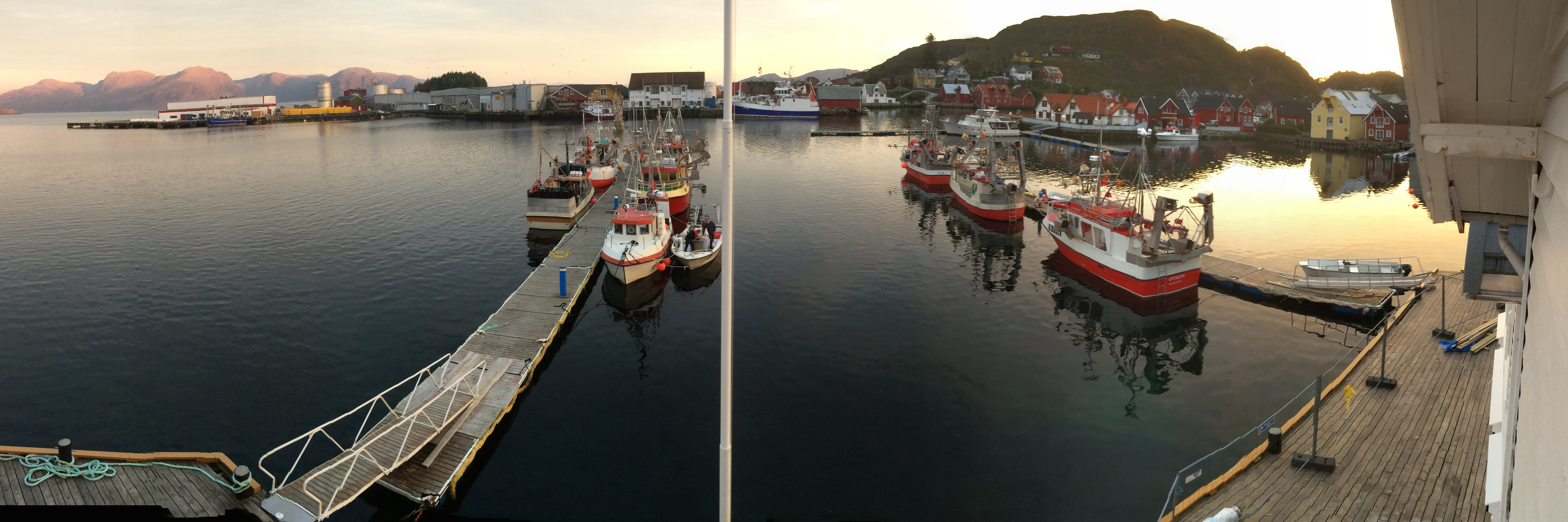 Fold-out-panorama of Kalvåg harbour in Bremanger municipality in Sogn og Fjordane County, Norway. (iPhone panoramic photo, distortion may occur in details and continuity.)